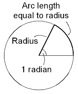 This graphic was created for the Radian article using Micrografx Designer and Micrografx Picture Publisher software. Unfortunately, Designer crashed and I lost the source file, so this png is all that's left.